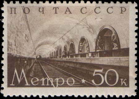 Stamp of the Soviet Union, Ploshchad Revolyutsii (Moscow Metro station), 1938, CPA #639.